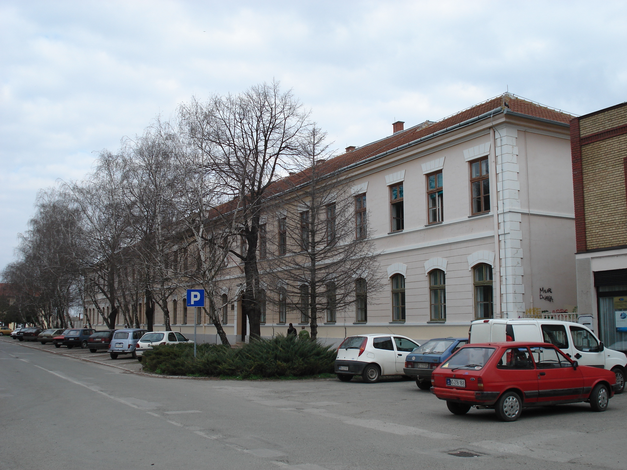 Today's look of the building